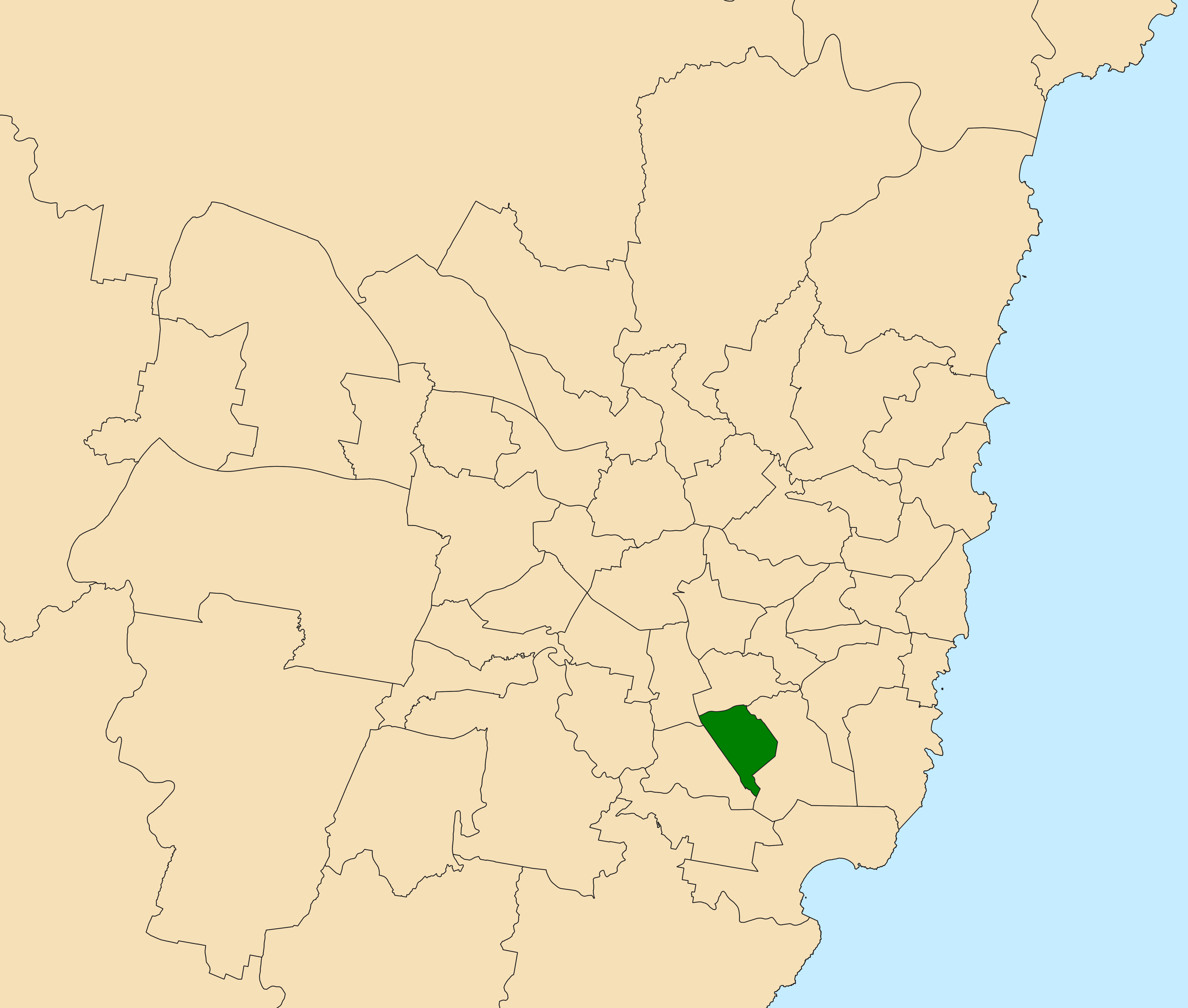 Location of the state electoral district of Kogarah (dark green) in the metropolitan Sydney area as of the 2019 New South Wales state election. Incorporates or developed using Administrative Boundaries ©PSMA Australia Limited licensed by the Commonwealth of Australia under Creative Commons Attribution 4.0 International licence (CC BY 4.0).